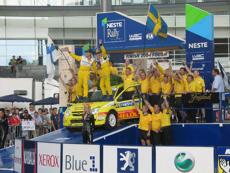 Per-Gunnar Andersson, his co-driver Jonas Andersson and the Suzuki team celebrating Junior World Rally Championship class victory at the 2004 Rally Finland.